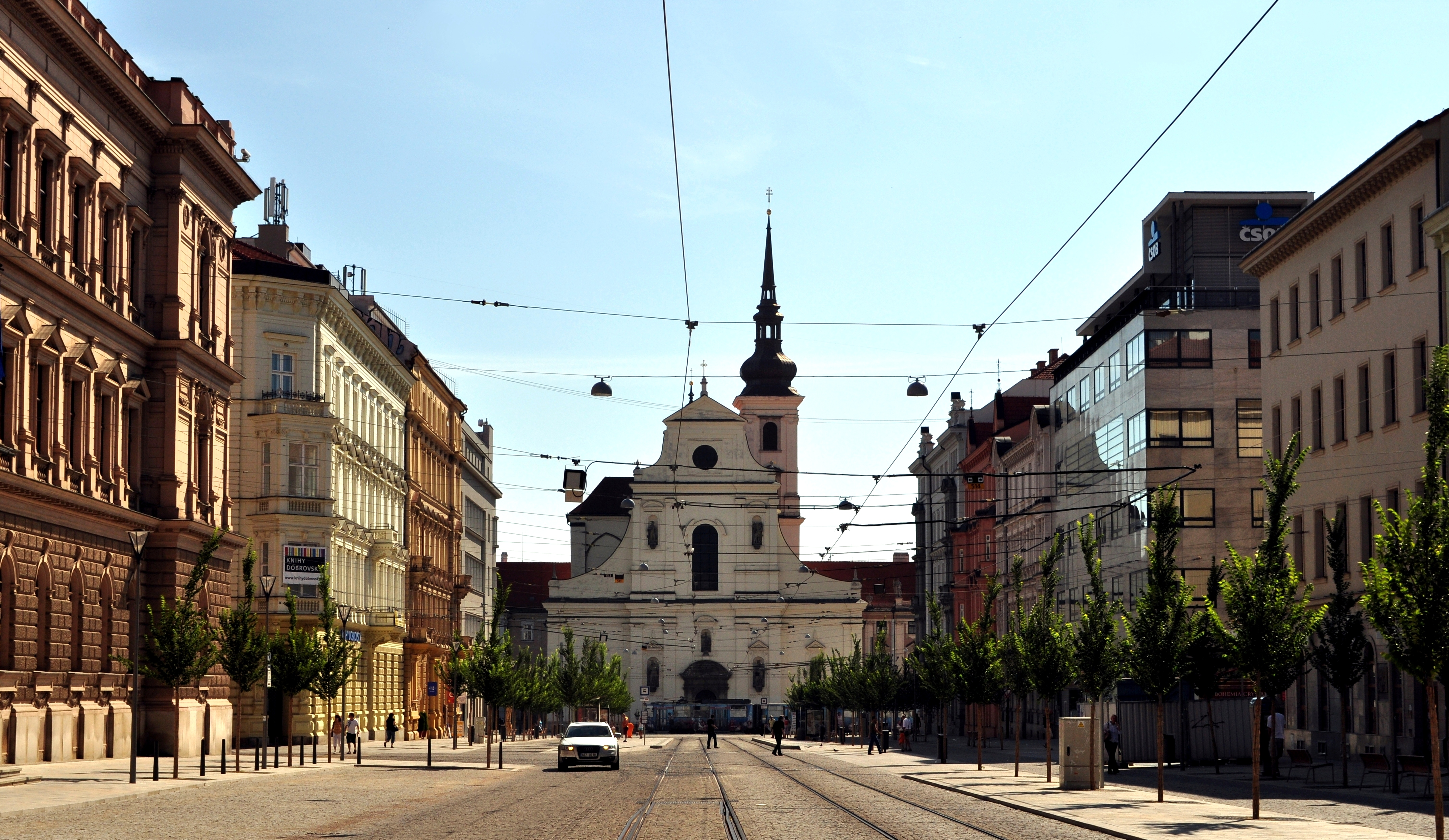 Joštova street and Church of Saint Thomas and the Annunciation on Moravian square in Brno, Moravia, Czech Republic.